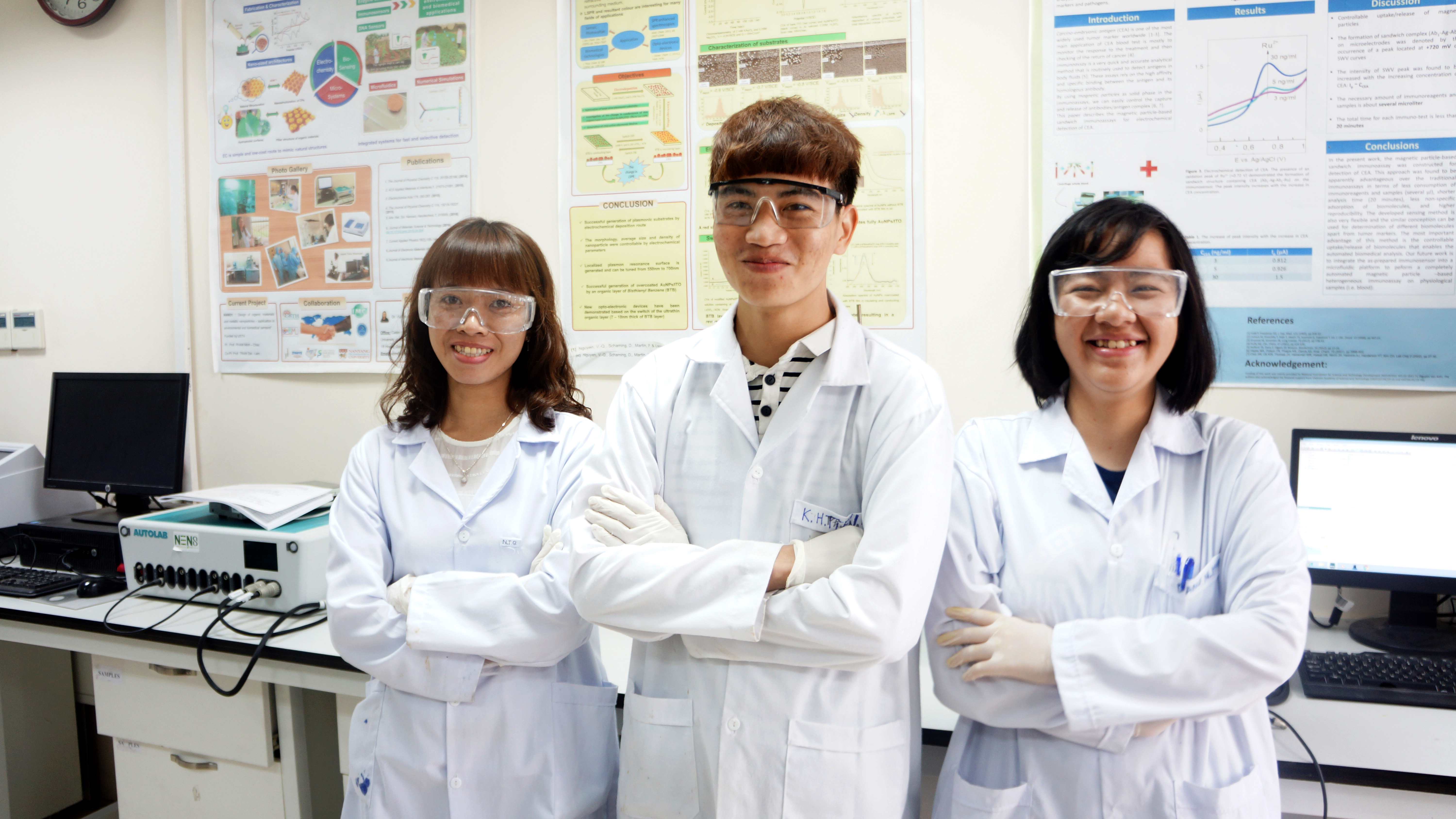 USTH